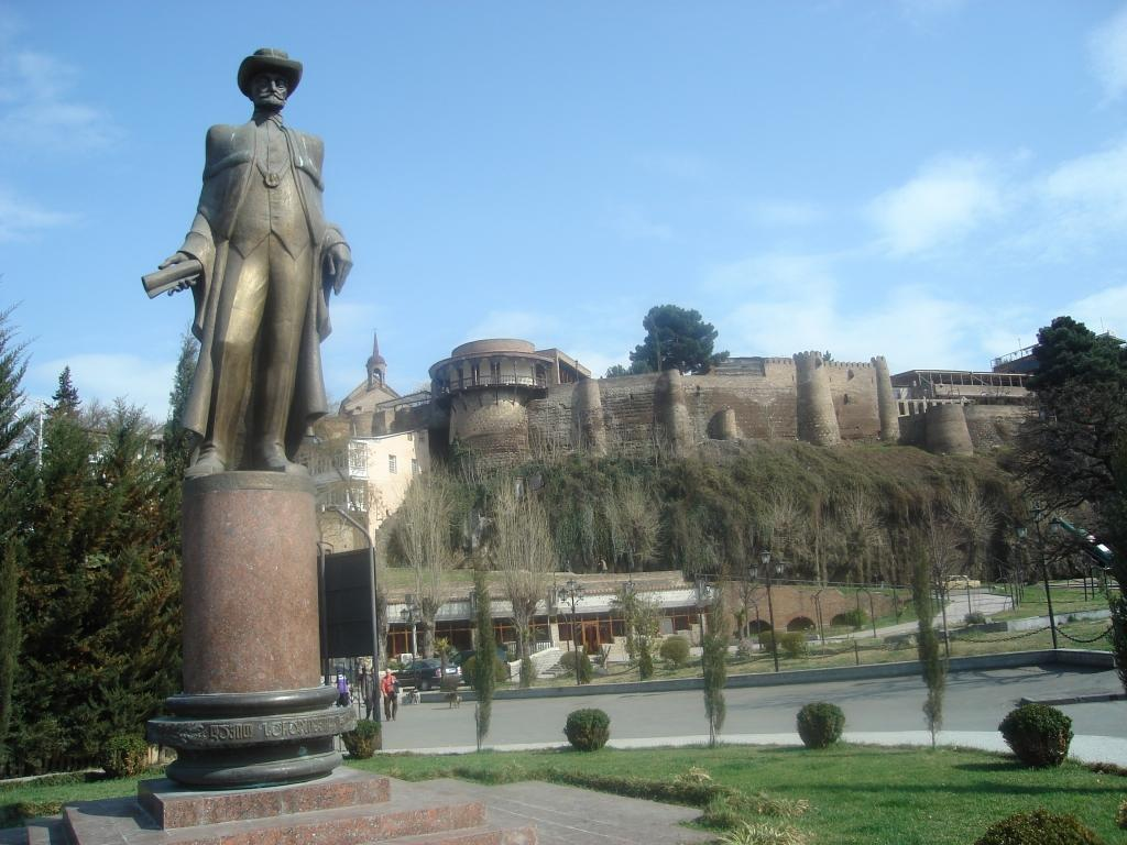 A monument to the 19th-century Georgian bussinessman and philantropist David Sarajishvili in the Riqe neighborhood in Tbilisi. The late 18th-century Palace of Queen Darejan can be seen in the background. The statue was removed and the area was completely reorganized in the following years.